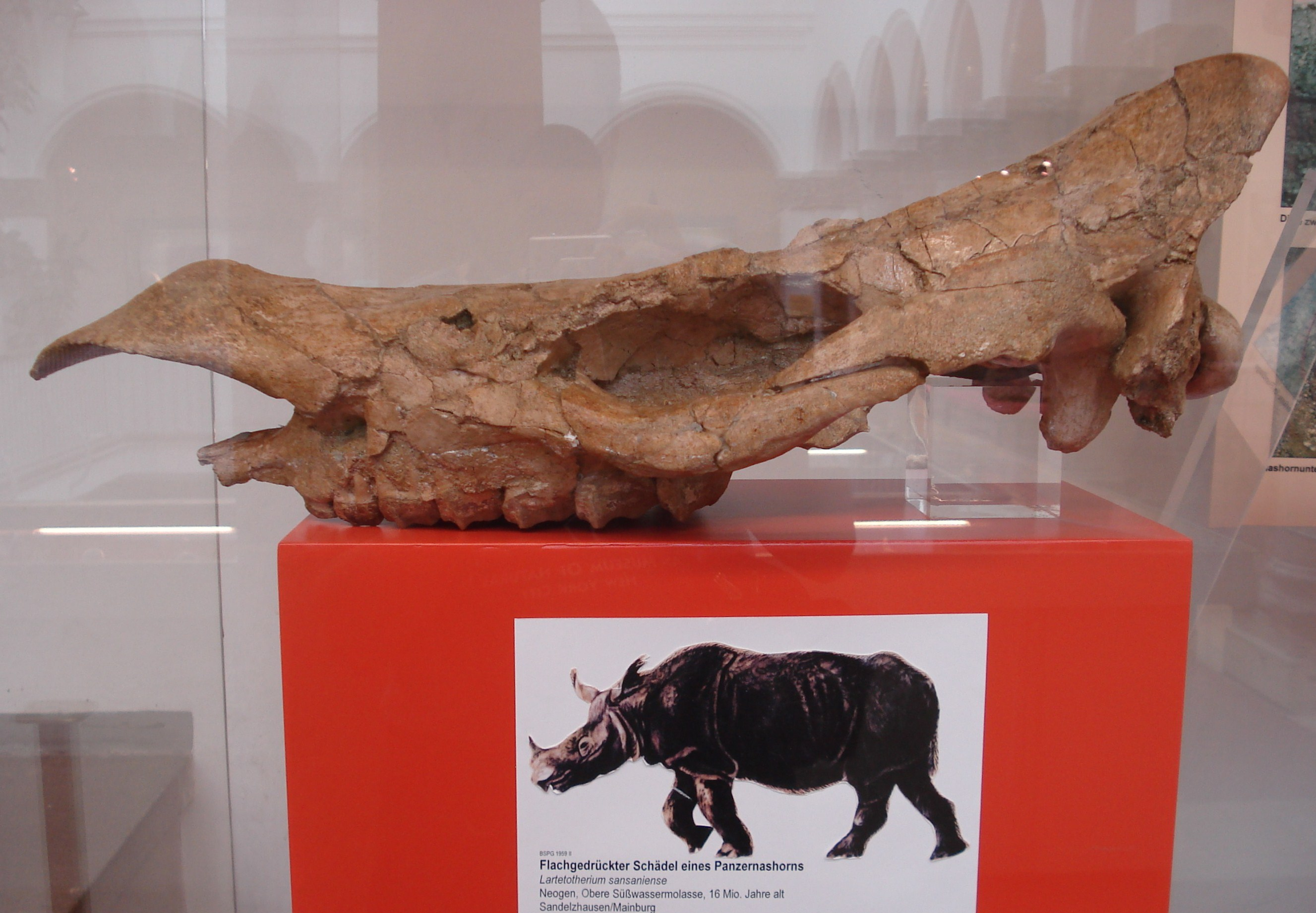 fossil of lartetotherium